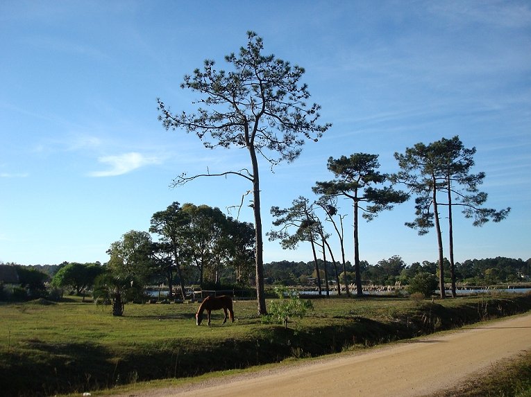 El Pinar, the east end of the resort, looking at Arroyo Pando. Ciudad de la Costa, Canelones Department, Uruguay.